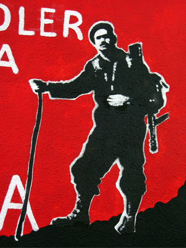 Detail of Quico Sabatés Mural in Sant Celoni.